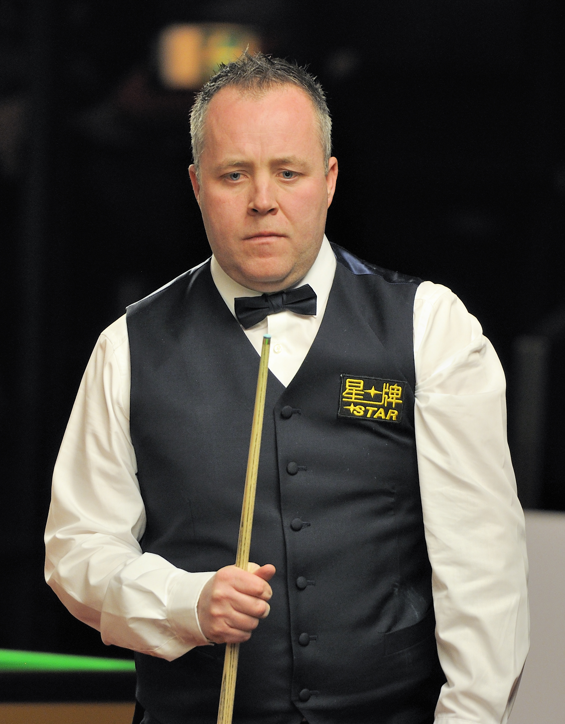 Picture taken in Berlin during the Snooker German Masters in 2014. John Higgins.